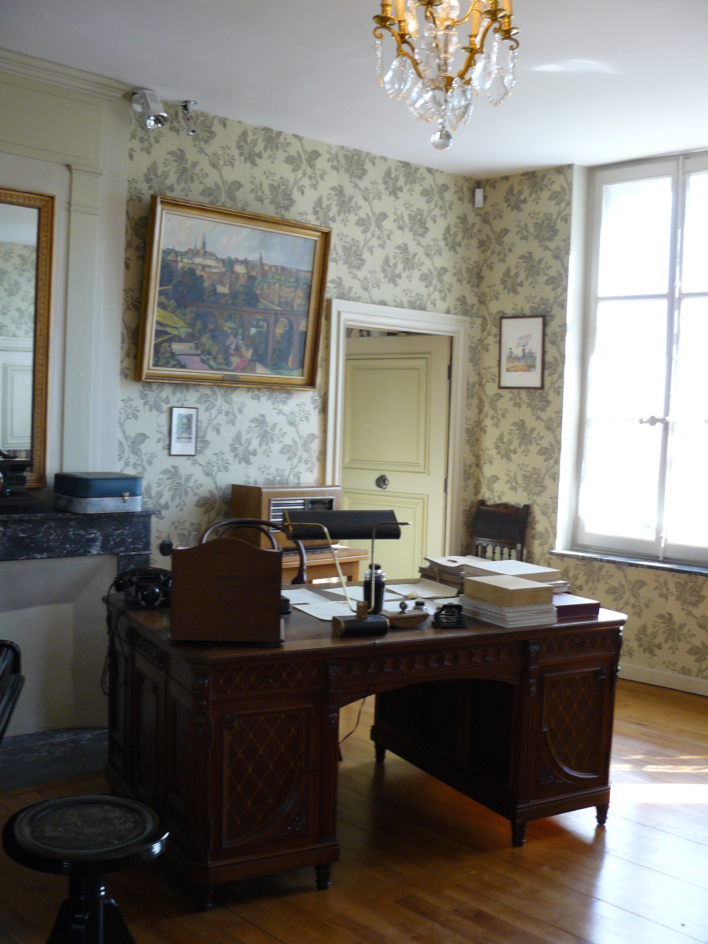 Robert Schuman Office (Scy-Chazelles, France).